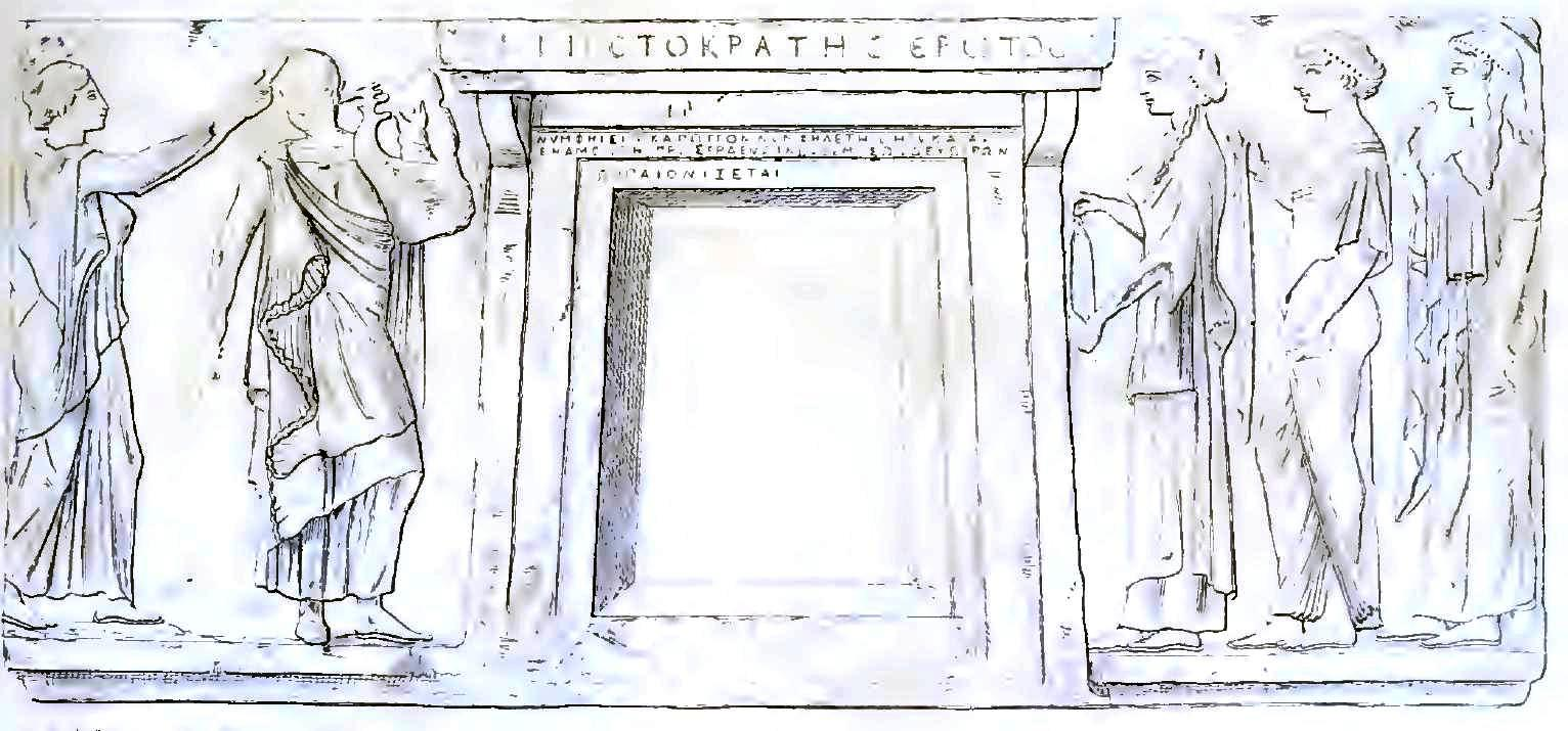 Apollon Nymphagetes and the Nymphs, relief of the Passage of Theori, from the agora of Thasos.